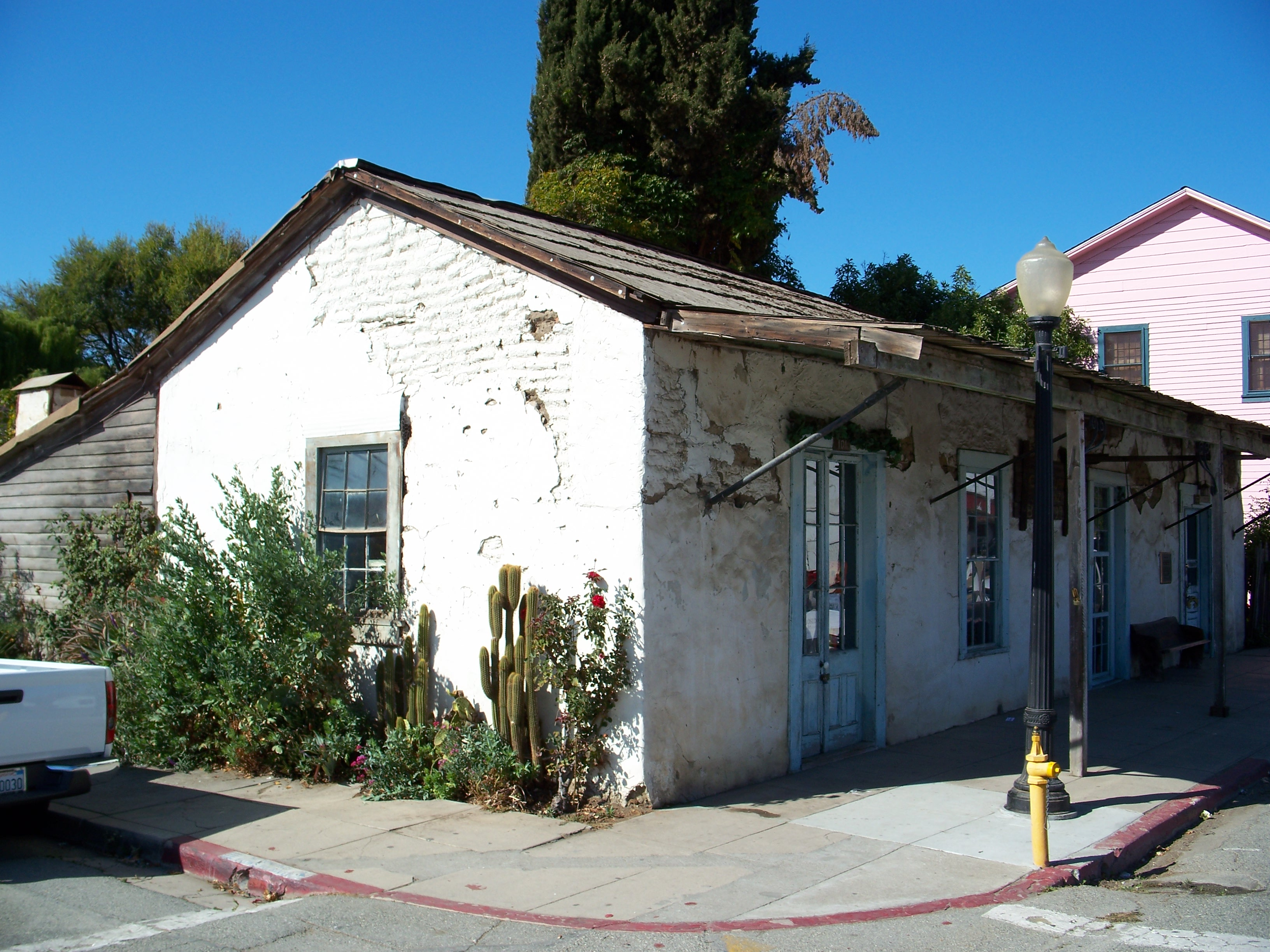 Juan de Anza house. 101/103 Third Street. San Juan Bautista, California, USA